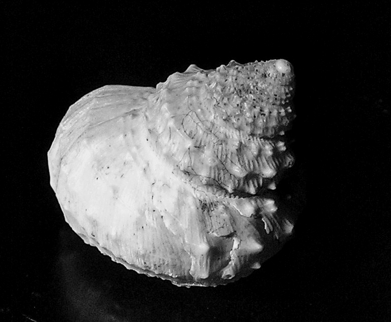 Ginebis crumpii Pilsbry, 1893 , a top snail from the family Trochidae; Taiwan